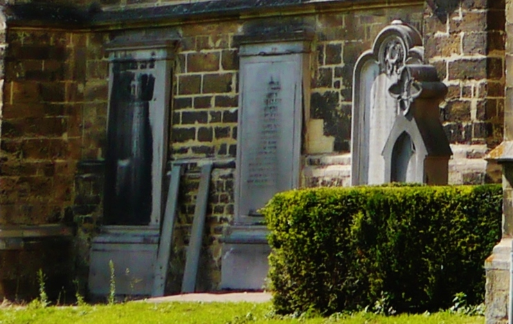 Basilica of the Holy Sacrament, Meerssen, Province of Limburg, Netherlands